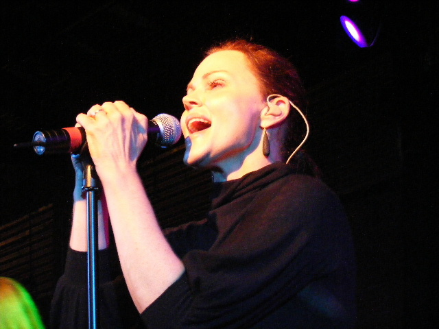 The Go-Go's at Antone's in Austin, TX. Belinda Carlisle (vocals)